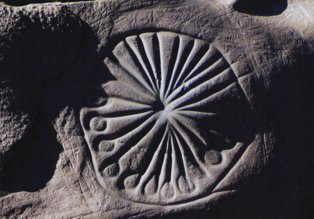 Prehistoric rock art, Ifran Tazka, valley of the River Draa, Morocco